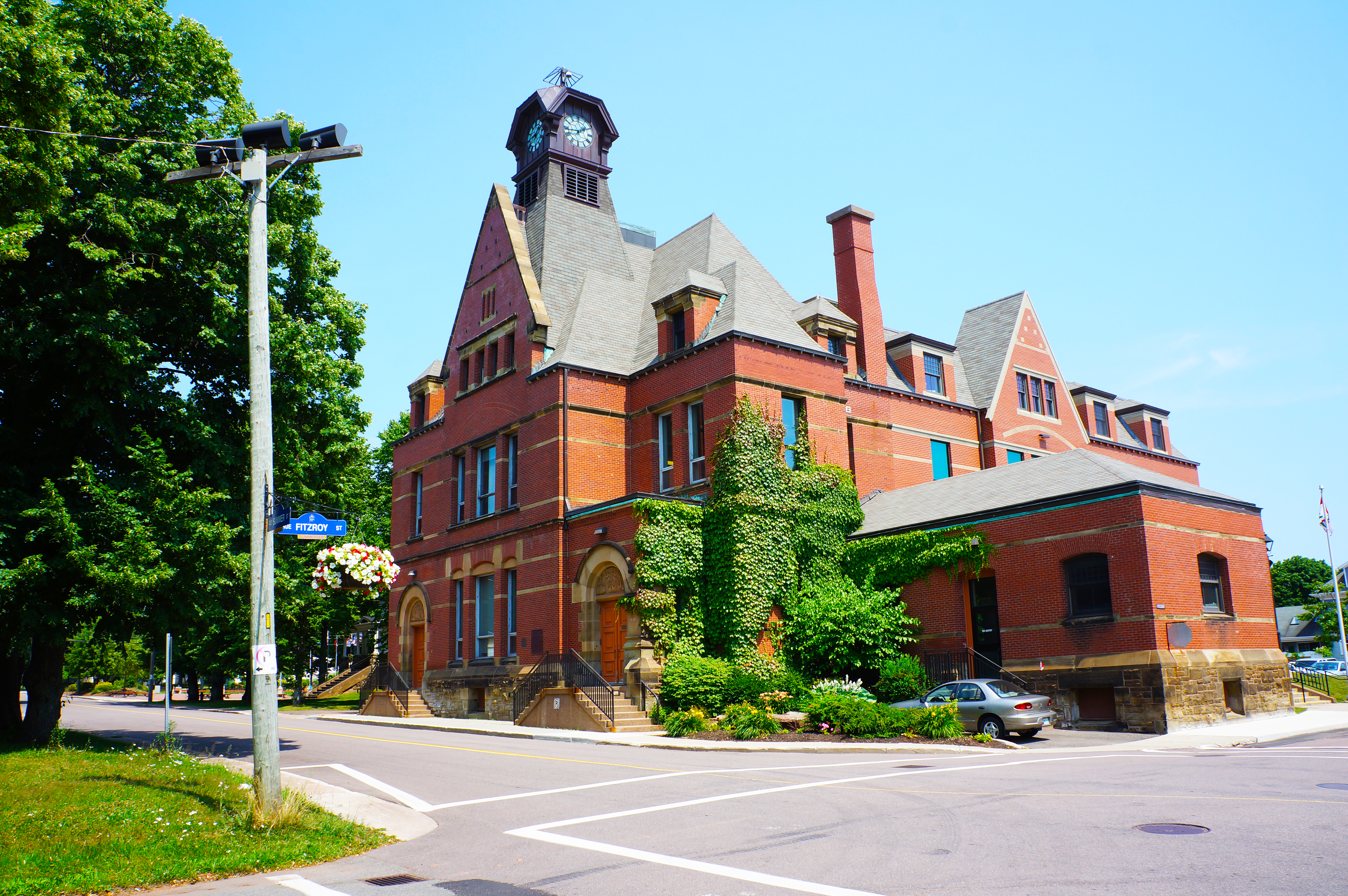 Summerside Prince Edward Island Week 12